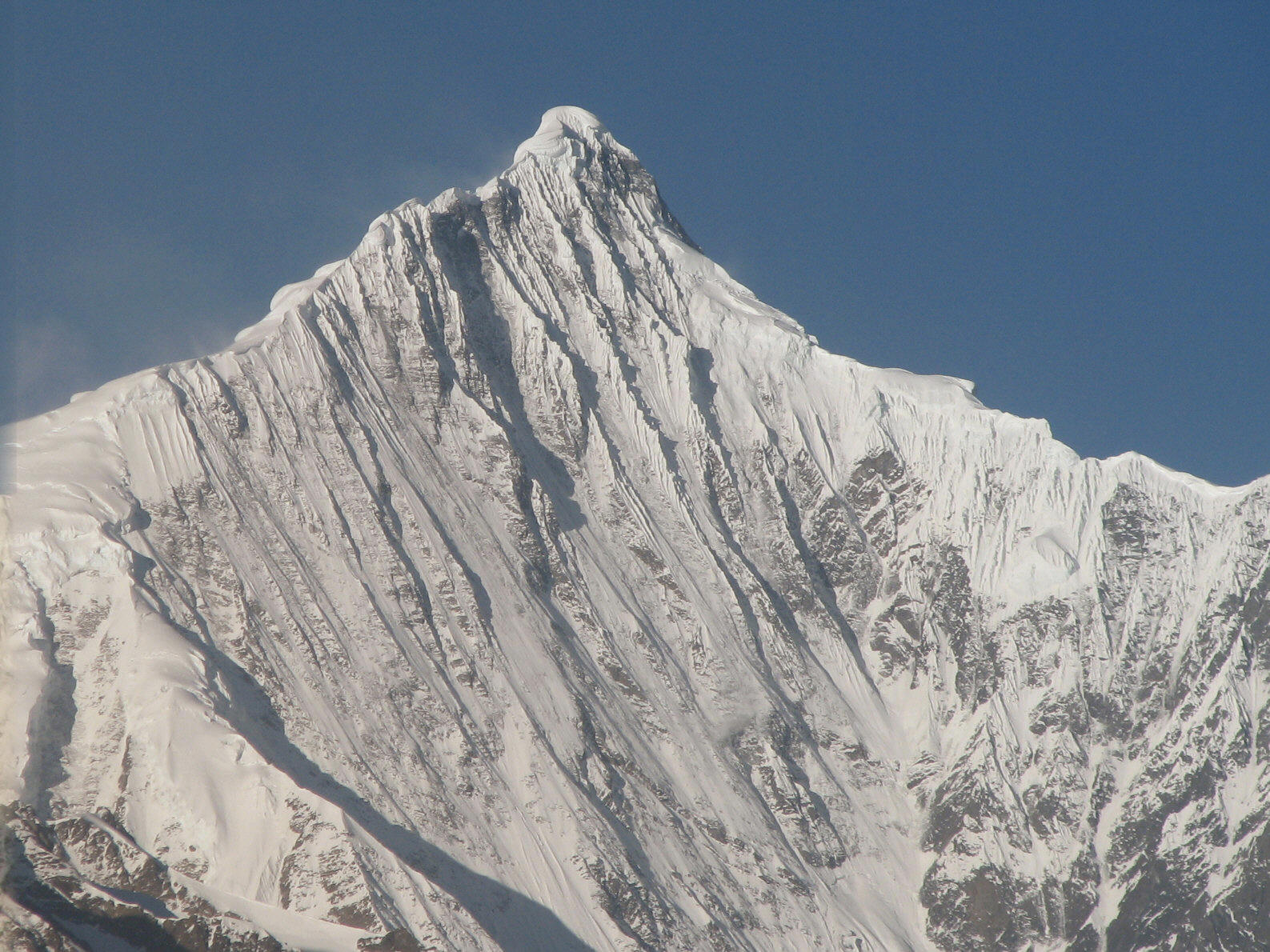 Khawa Karpo 6740m - East Face